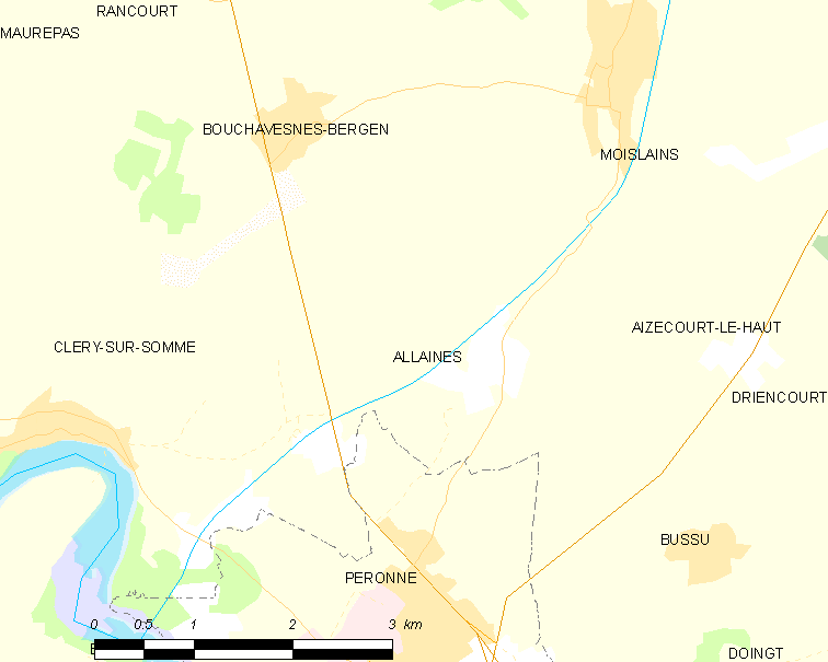 Map of French municipality Allaines